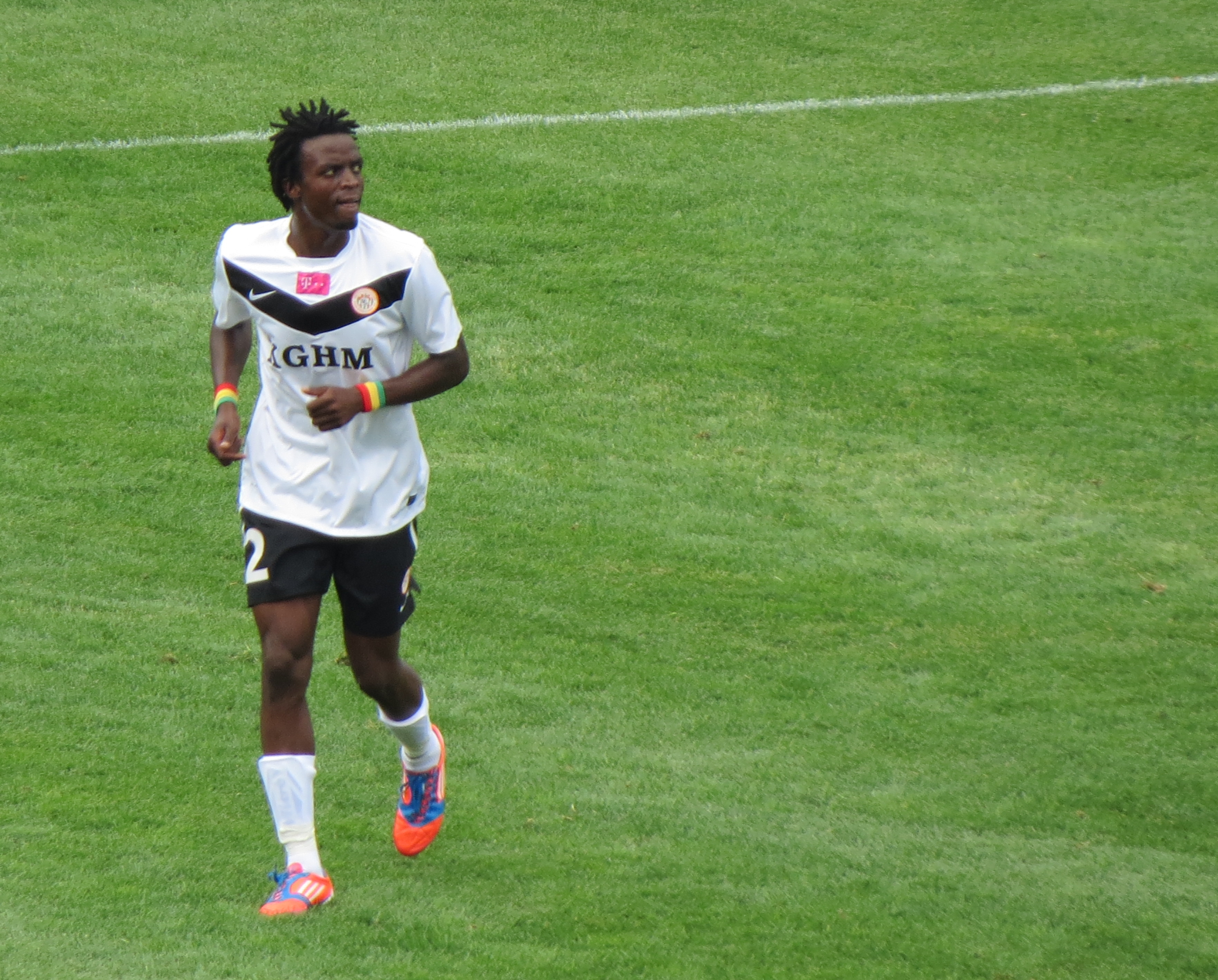 Costa Nhamoinesu during a match against AS Roma in Chicago.